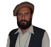 Delegates representing Nangarhar province at the Loya Jirga or Grand Council meeting underway in Afghanistan. The delegates chose Chairman Hamid Karzai as President of a transitional government to govern the country for the next 18 months. Three of the delegates sport the Pakol, a traditional hat which became popular in the 1980s and 1990s among mujahedin fighters in Afghanistan.